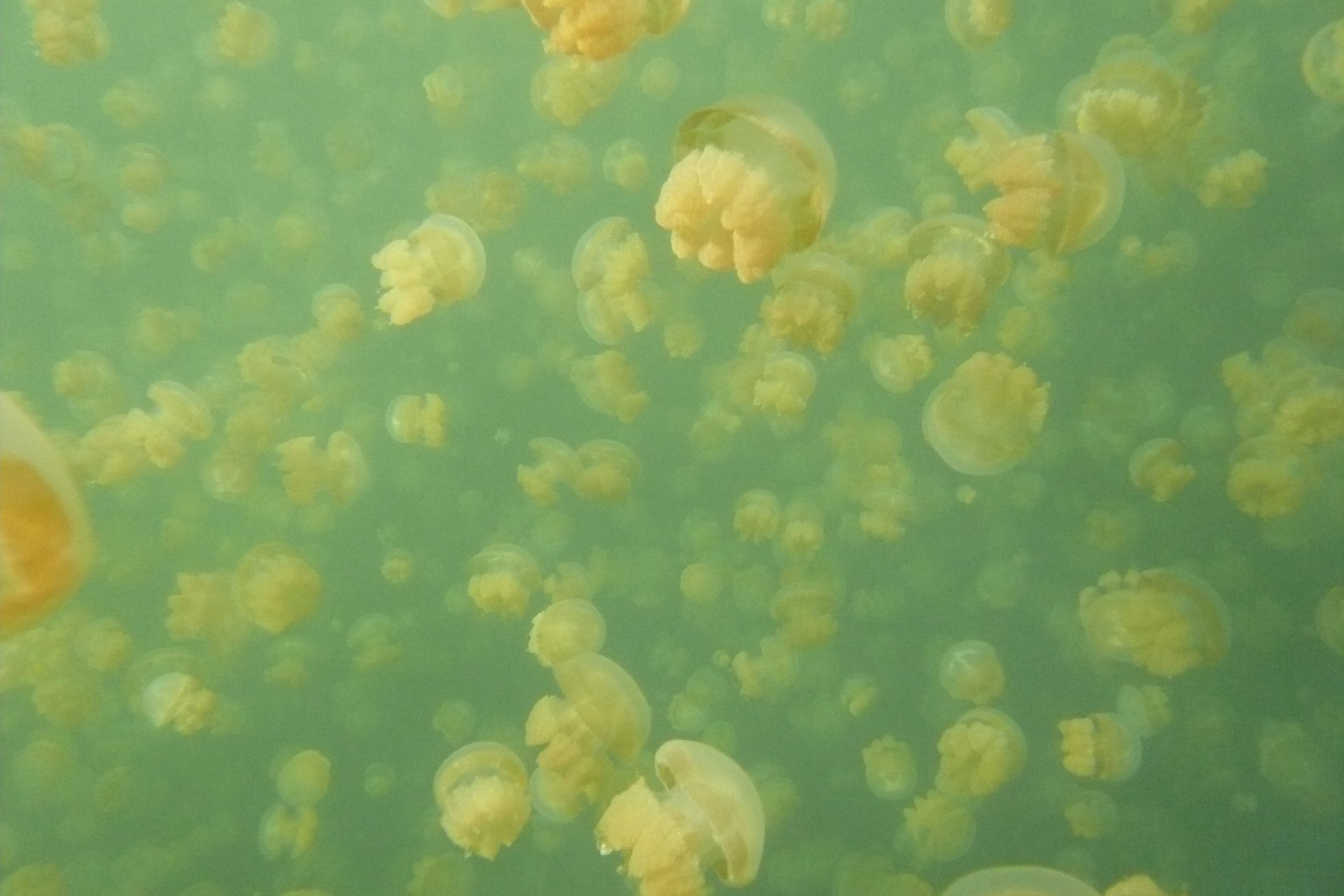 Jellyfish in Jellyfish Lake, Palau. Several hundred are visible in this photograph alone.